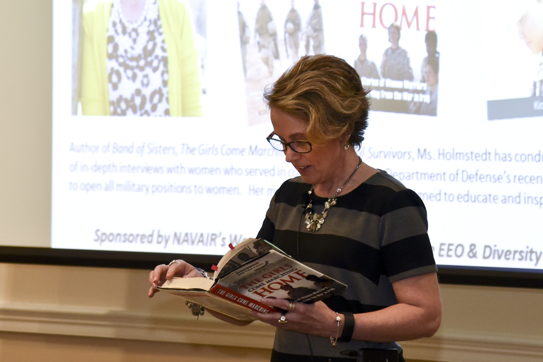 Author Kirsten Holmstedt reads a selection from her 2009 book, The Girls Come Marching Home: Stories of Women Warriors Returning from the War in Iraq, at a national NAVAIR Women’s History Month event March 24 in Patuxent River, Md. (U.S. Navy photo)